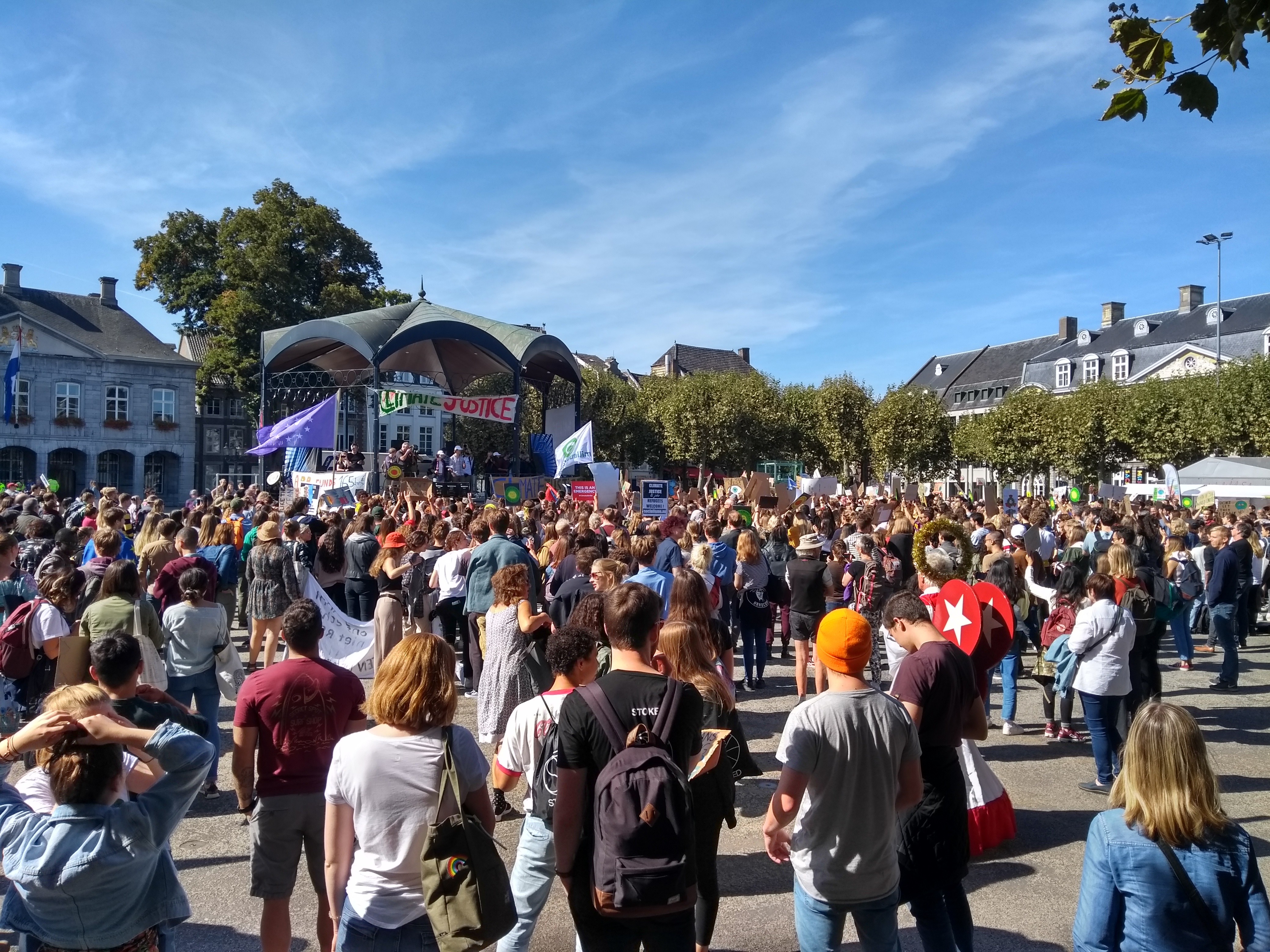 Photo taken at the Vrijthof at the start of the Global Climate Strike Maastricht.